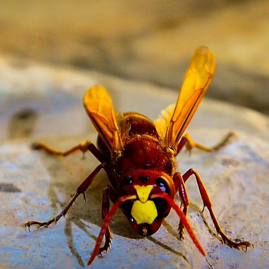 Hornets (insects in the genera Vespa and Provespa) are the largest of the eusocial wasps, and are similar in appearance to their close relatives yellowjackets.